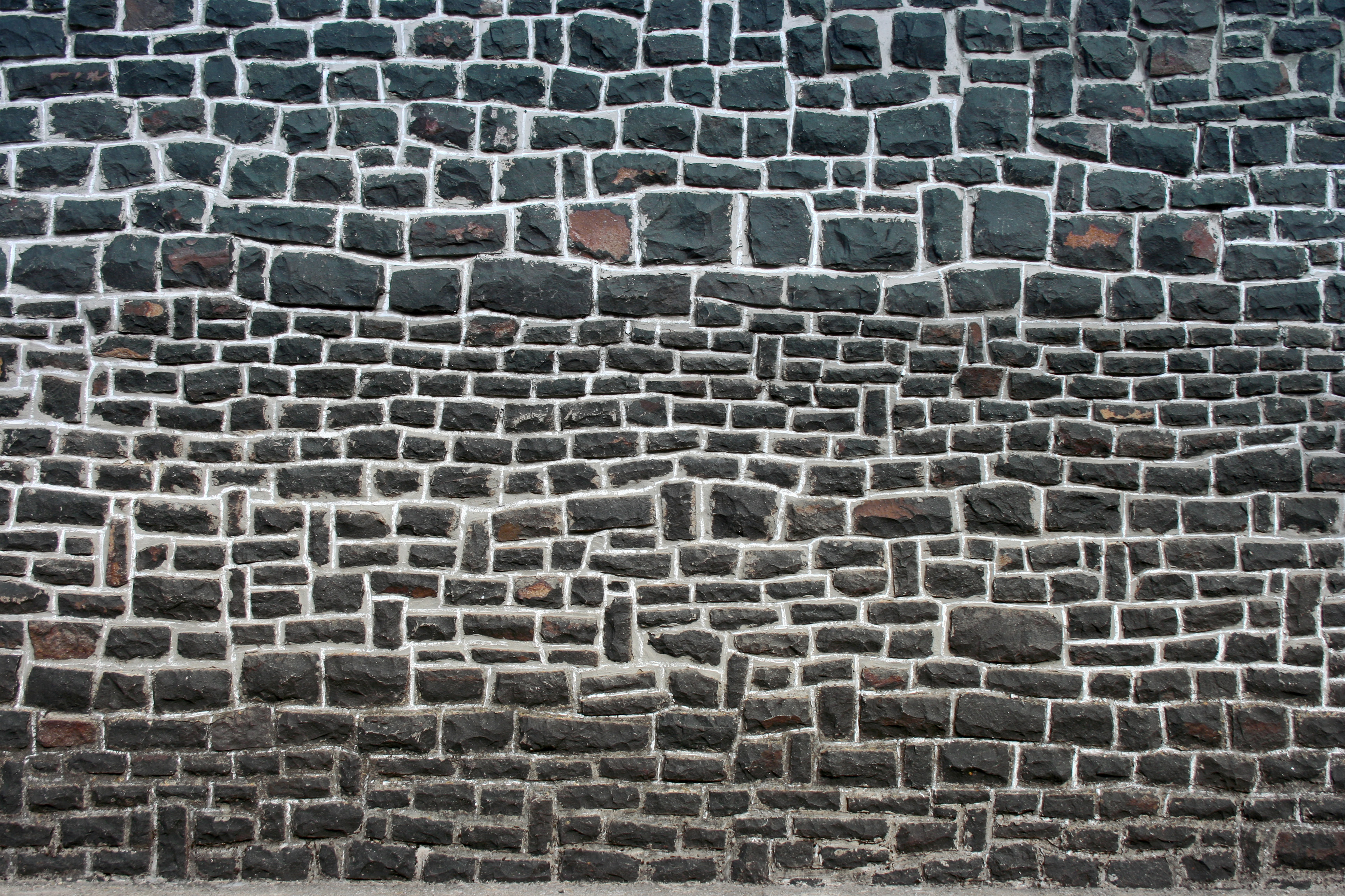 Basalt house-wall - Matraszentistvan, Hungary